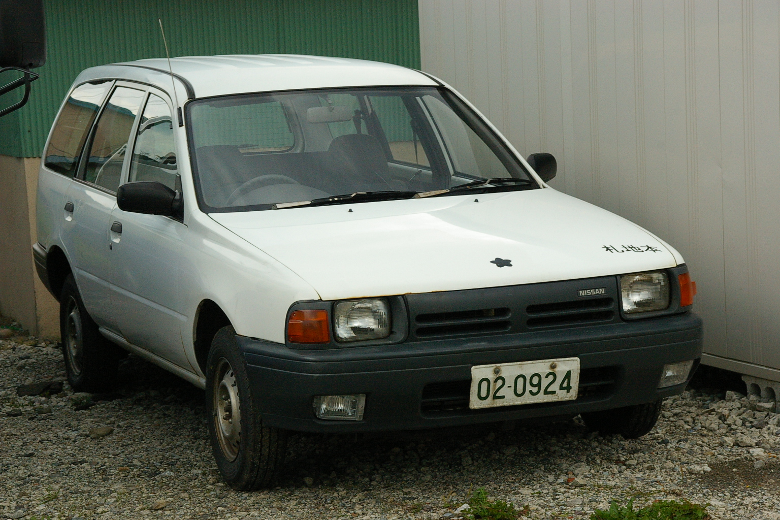 JGSDF Gyoumusha 1go (support purpose).